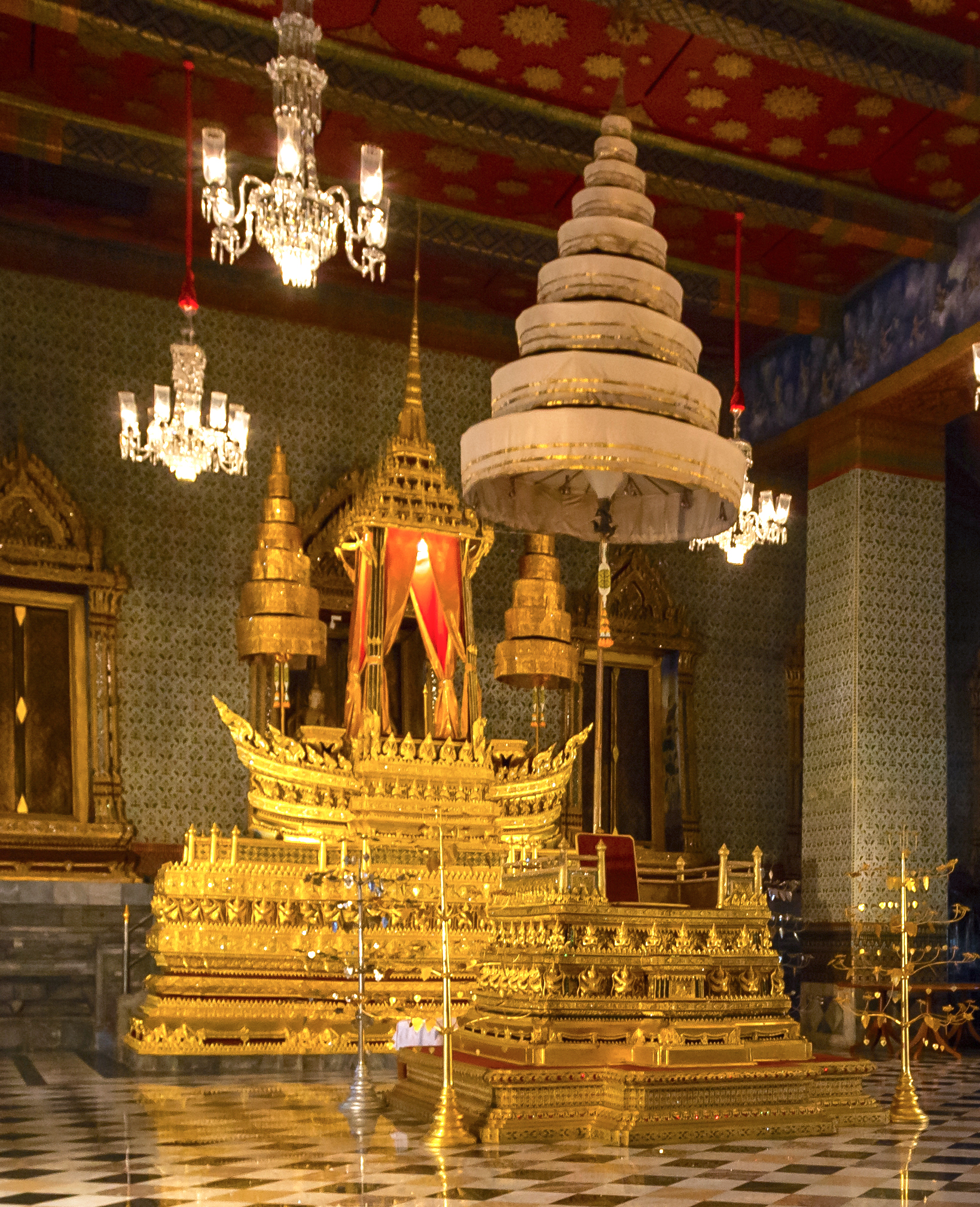 Grand Palace, Bangkok, Thailand